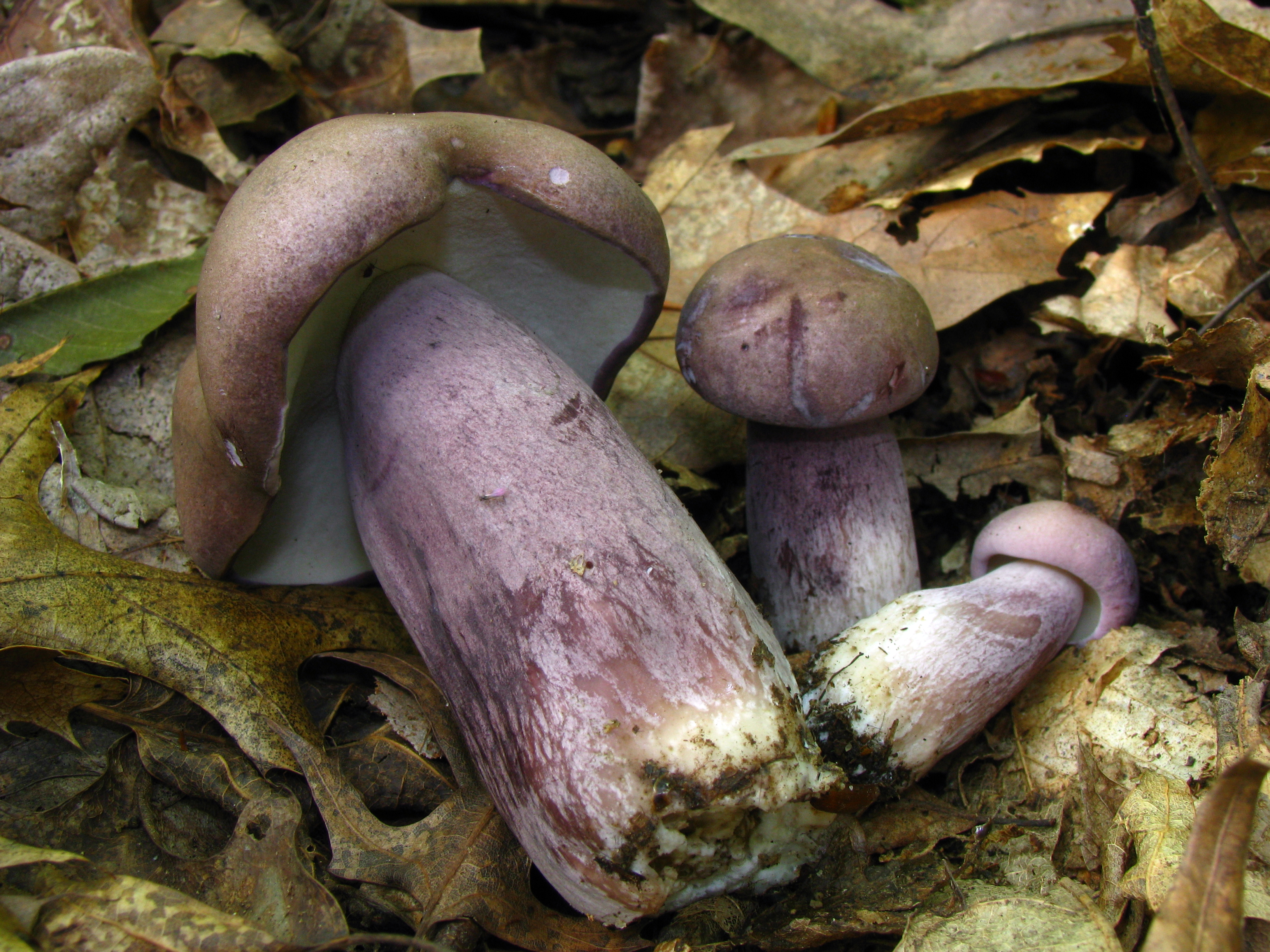 The bolete mushroom Tylopilus plumbeoviolaceus (Snell and Dick) Singer. Photographed in Strouds Run State Park, Athens, Ohio, USA.